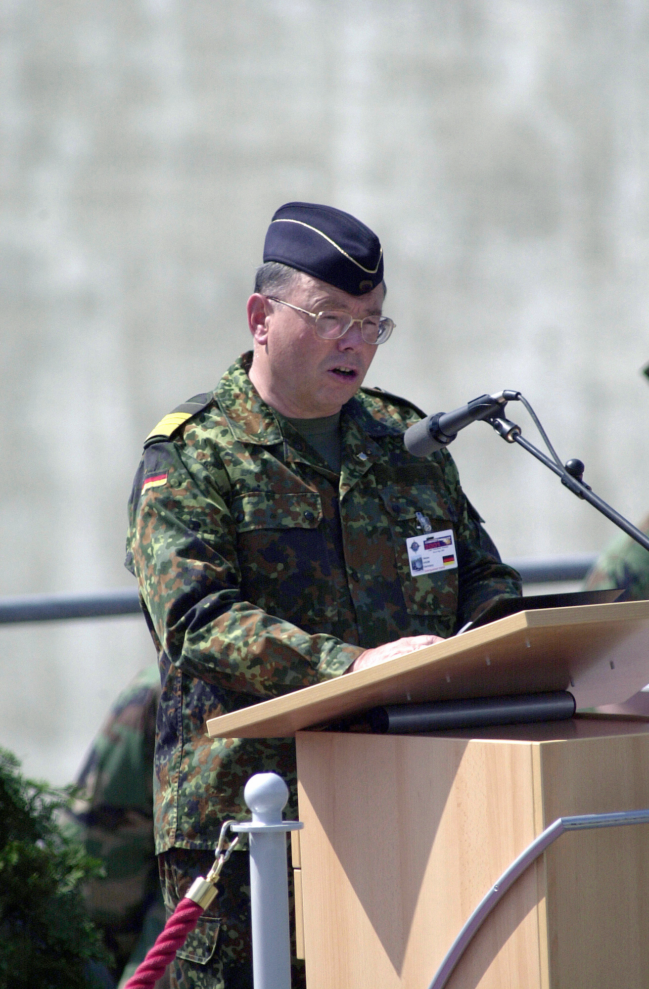 German Armed Forces Vice Admiral Bernd Heise, Chief of the Joint Support Service, addresses the participants of Exercise COMBINED ENDEAVOR 2001, during the closing ceremonies. This marks the end of Combined Endeavor 2001 in Lager Aulenbach, Germany. Sponsored by US European Command and hosted by Germany, the exercise is held annually to test and document the interoperability of dozens of countires and NATO. This is the largest communications and information systems exercise in the world, 37 countries participated this year. Location: Lager Aulenbach, Rheinland-Pfalz, Germany.